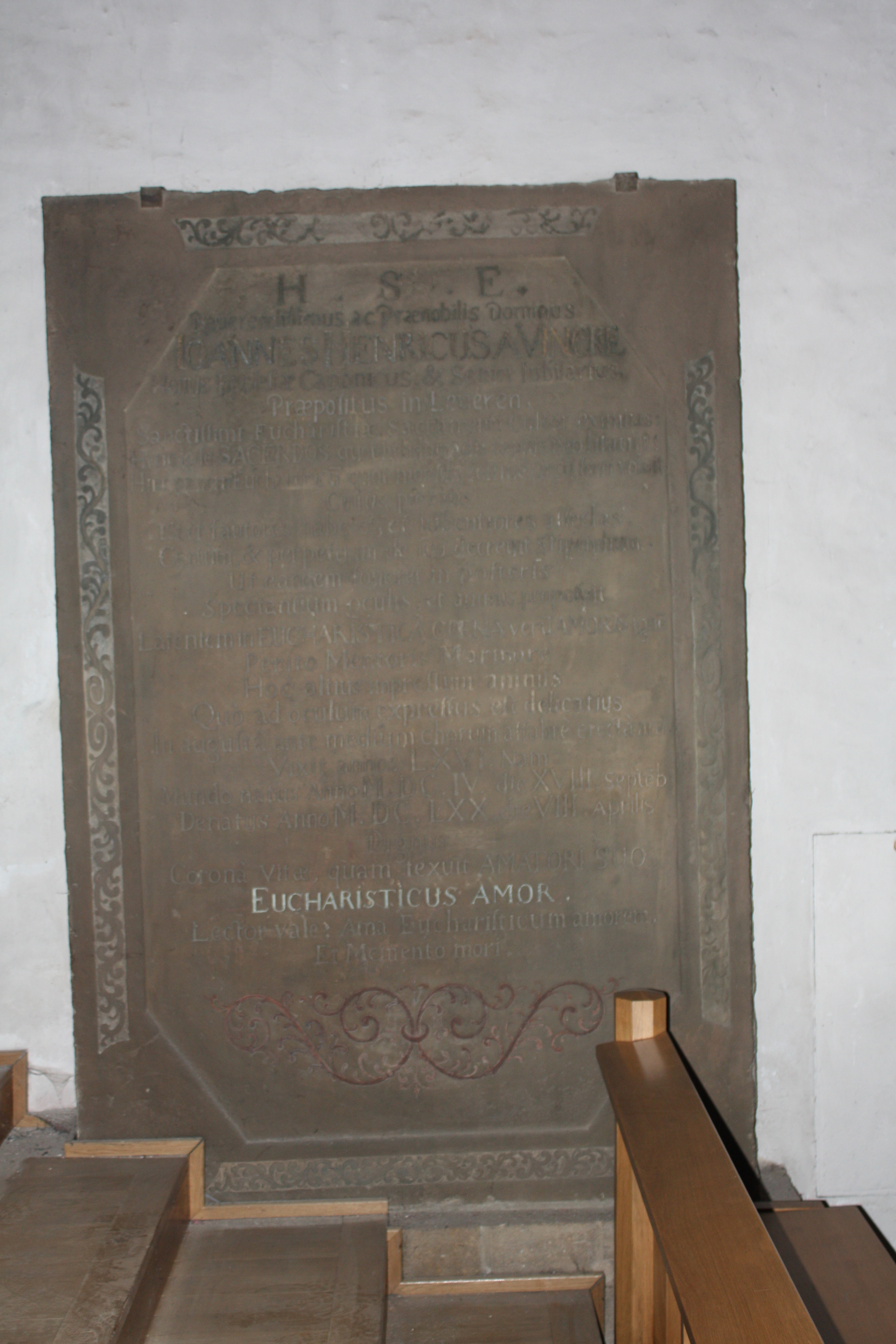 Cathedral in Minden, District of Minden-Lübbecke, North Rhine-Westphalia, Germany.